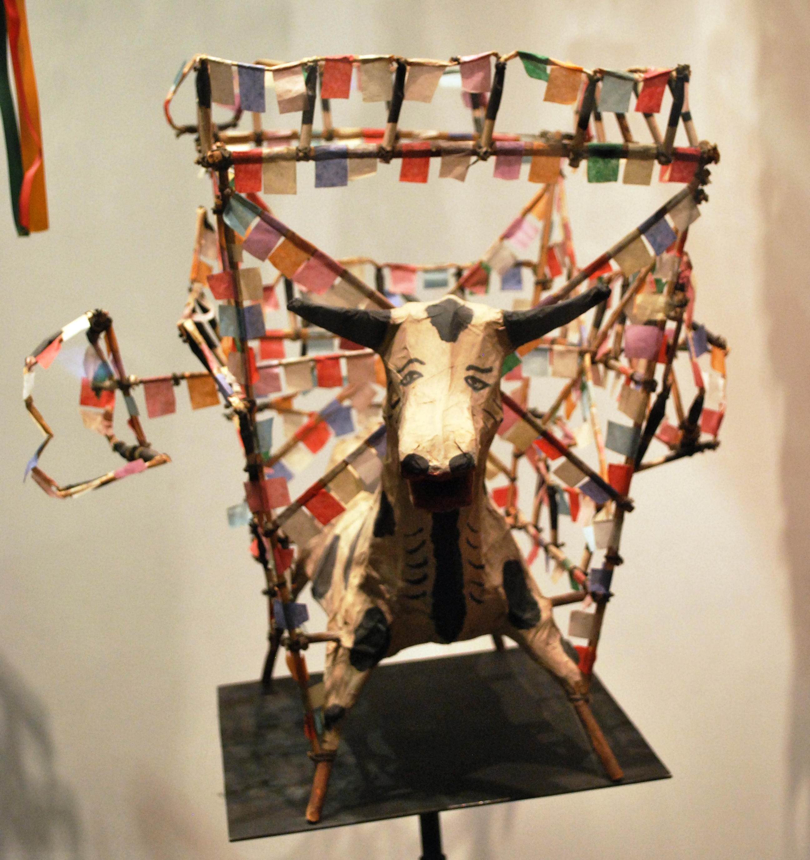 Bull firework frame from the state of Mexico on display at the Museum of Artes Populares in Mexico City